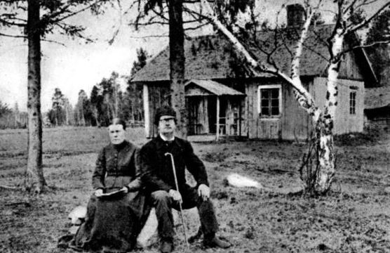 Albert Stenvall, brother of Finnish author Aleksis Kivi, and his spouse Vilhelmiina in front of Aleksi Kivi Memorial Cottage, ca. 1890s. The couple was later murdered in the cottage in 1913.